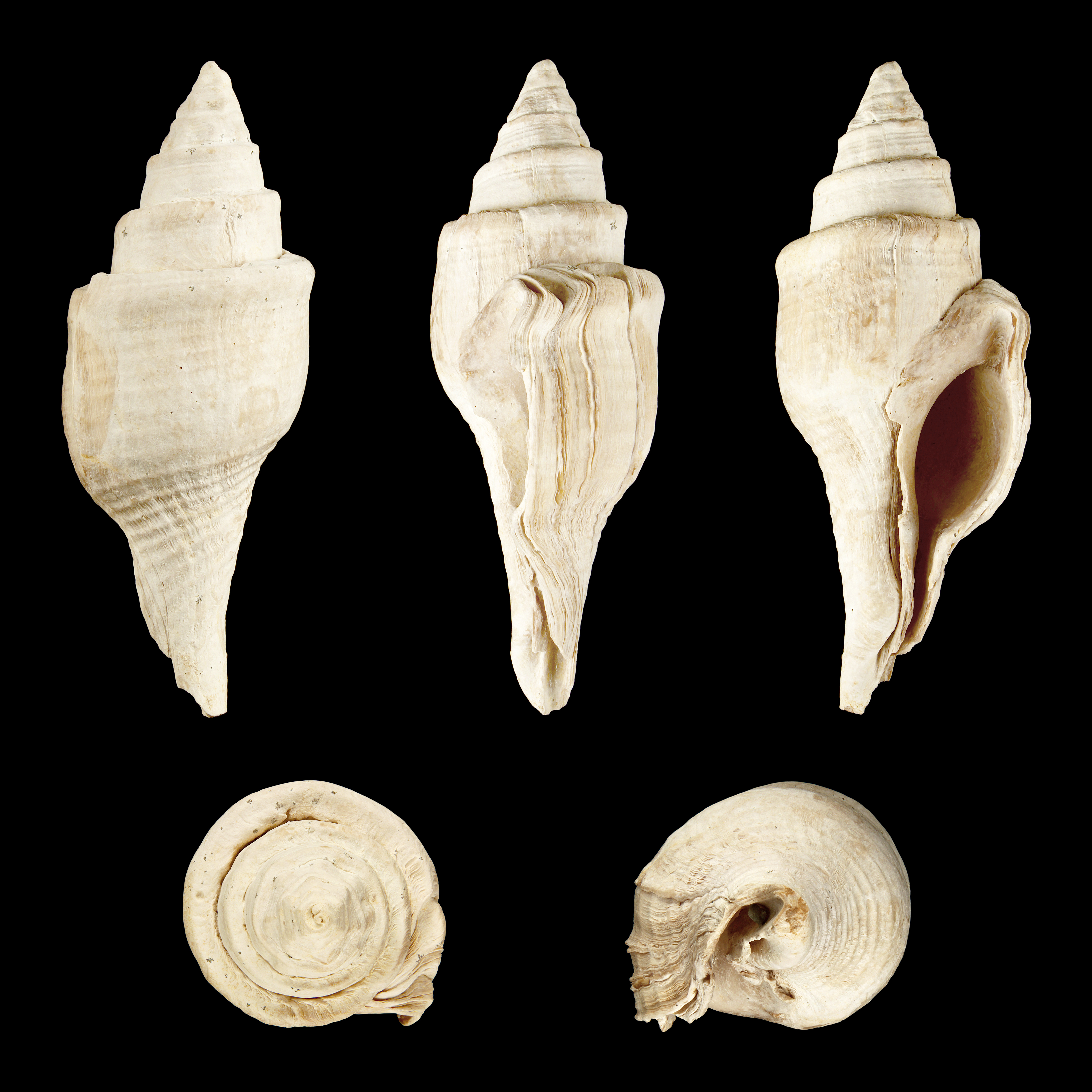 Length 8.5 cm; Lutetian, Eocene; Damery, Dept.Marne, France; Shell of own collection, therefore not geocoded. Dorsal, lateral (right side), ventral, back, and front view.